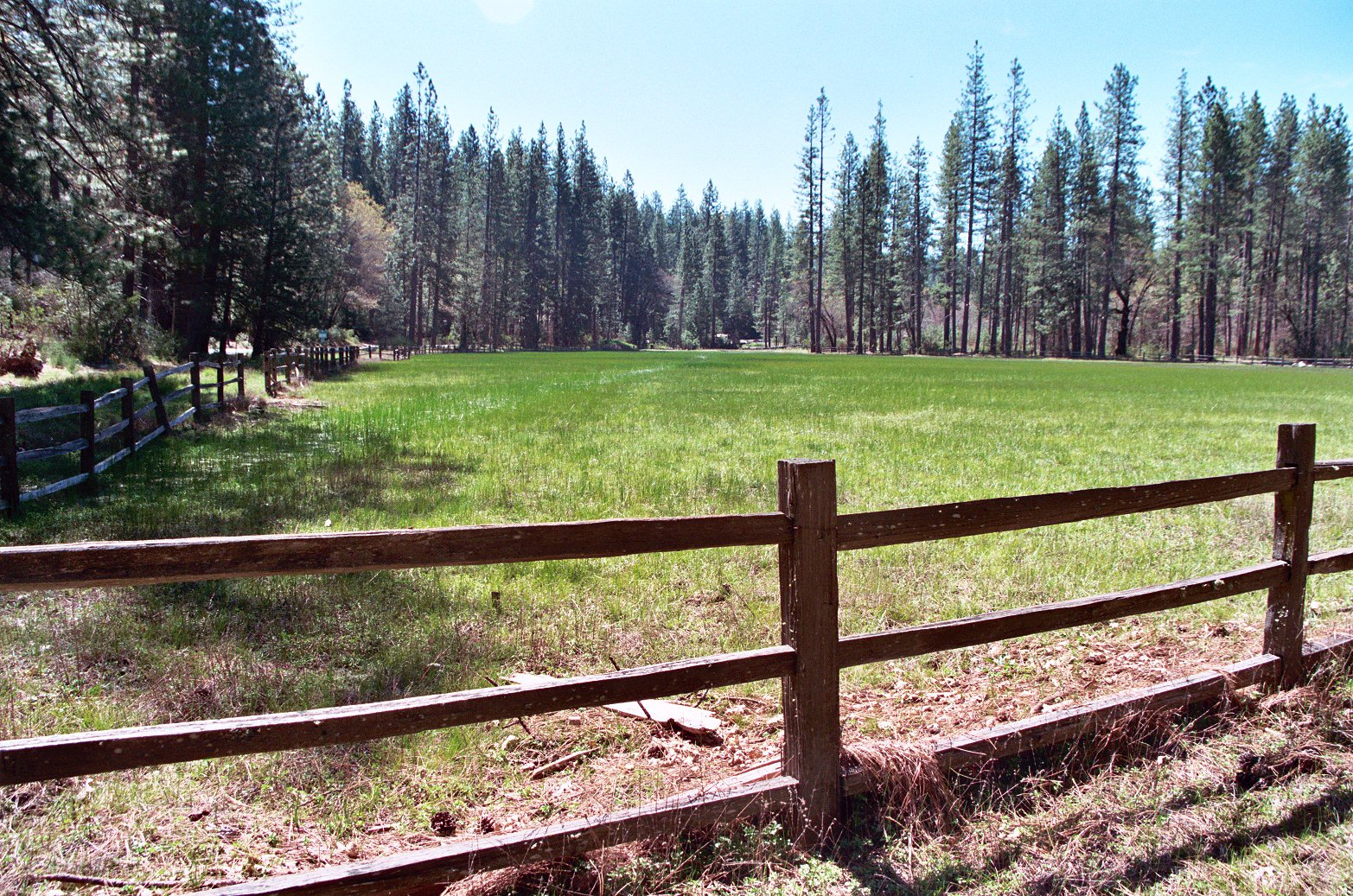 Loch Lomond Vernal Pool in dryseason